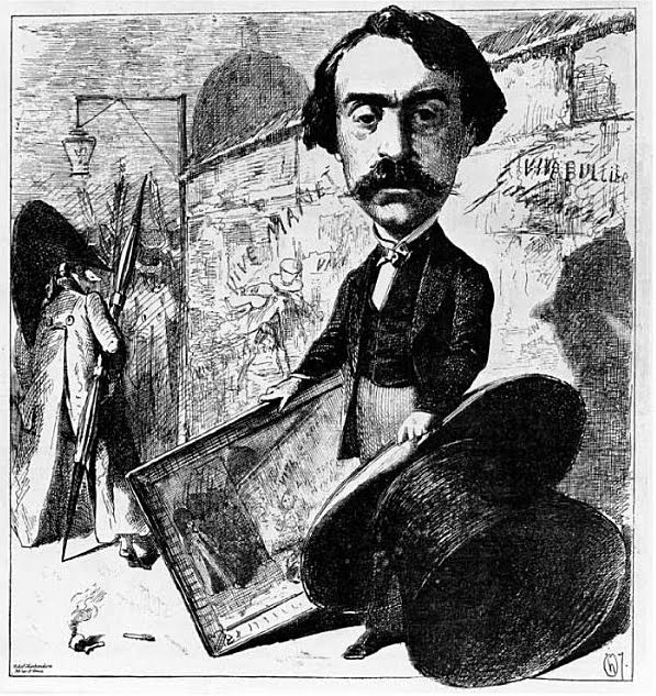 Caricature of Jean-Léon Gerome by Henri Oulevay, commenting on the controversy roused by Gérôme's painting The Execution of Marshal Ney at the Paris Salon of 1868.